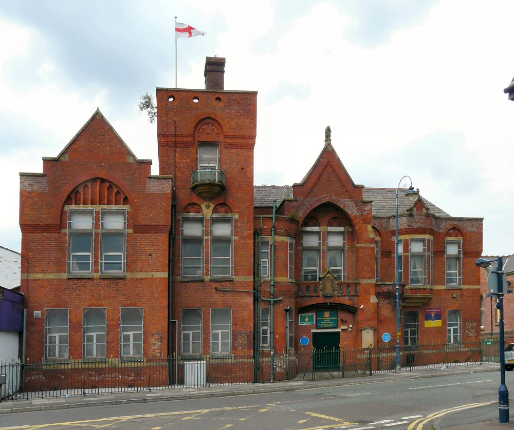 Ashton TA Centre